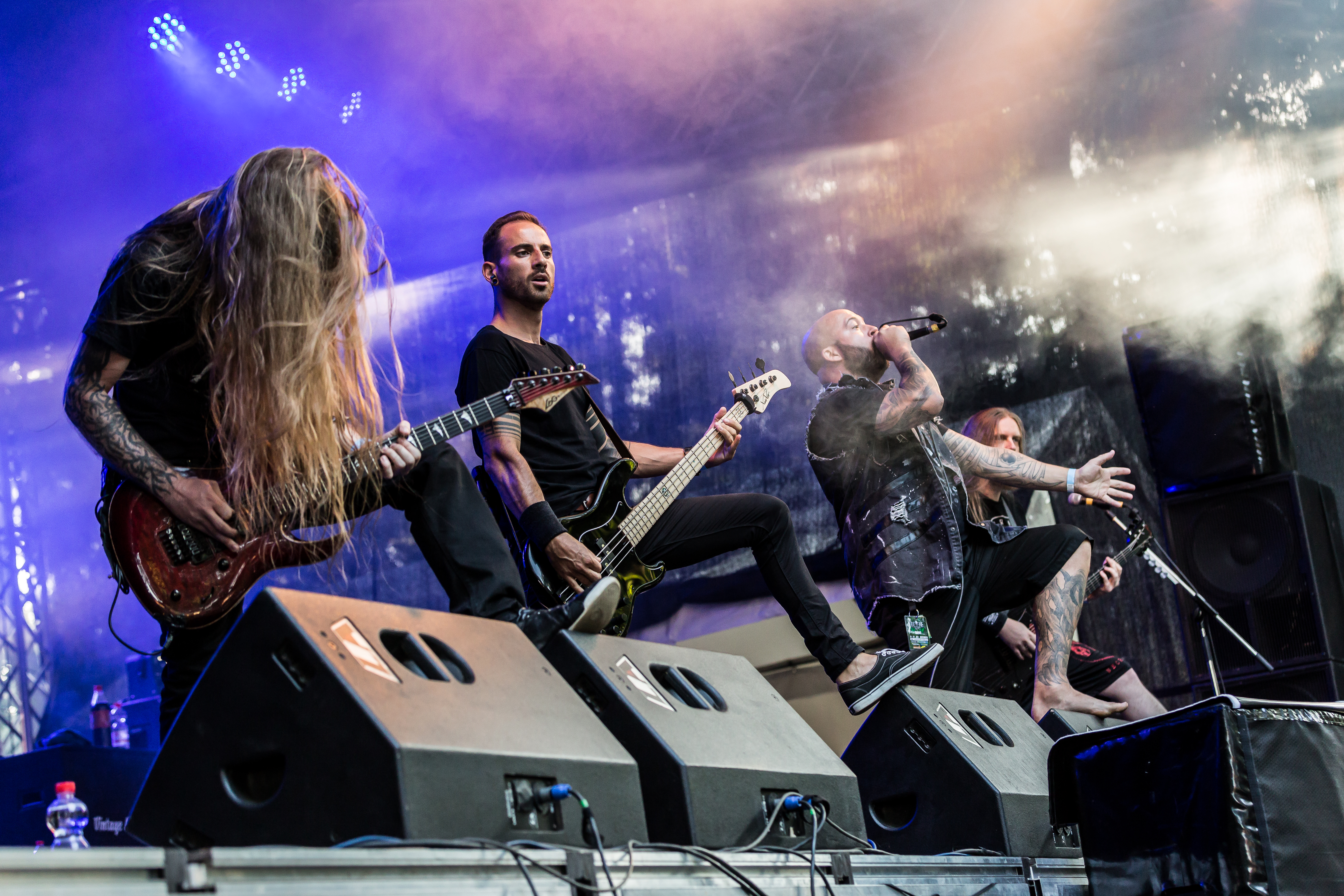 The French brutal death metal band Benighted at the Rock unter den Eichen Open Air 2017 in Bertingen/Germany.